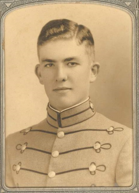 George McMillan Citadel senior portrait